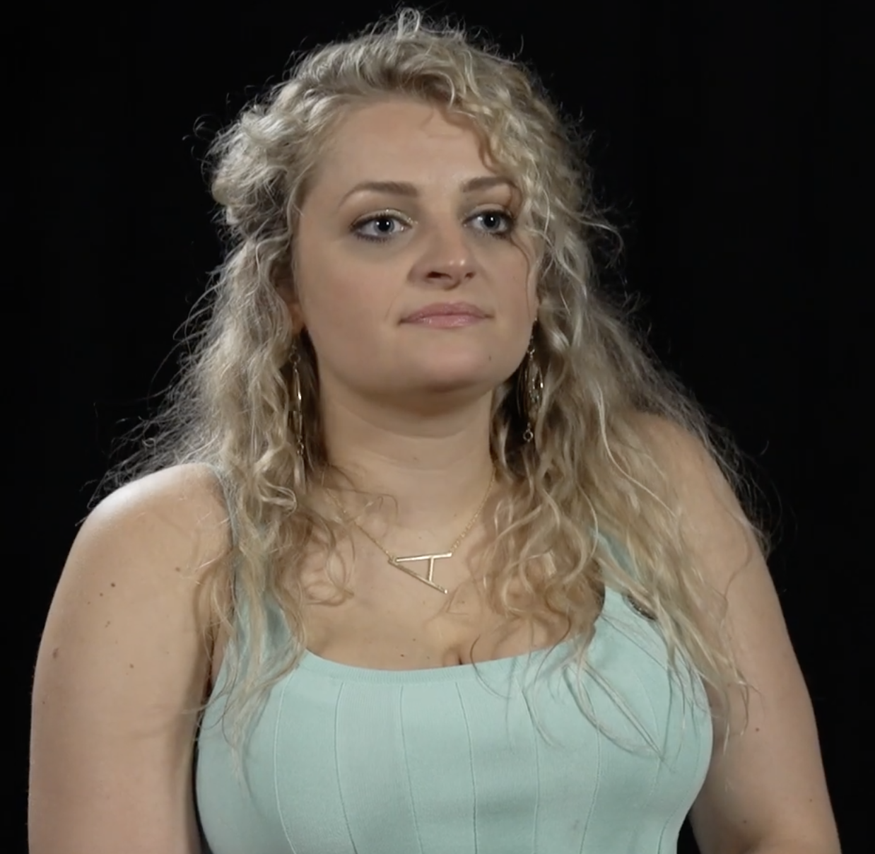 Ali Stroker interviewed by The Tony Awards in 2019